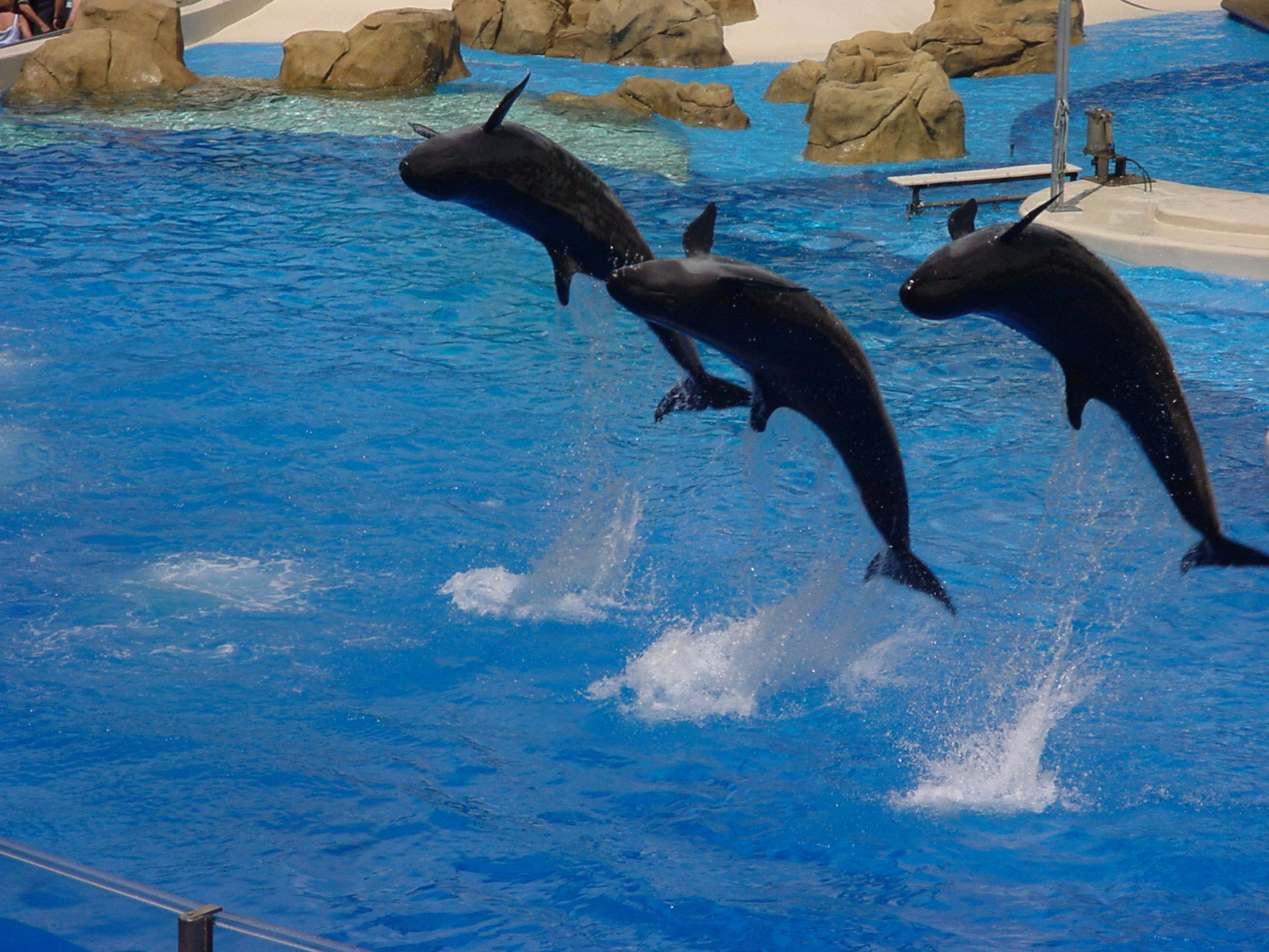 Dolphins at the Orlando Sea World in 2002